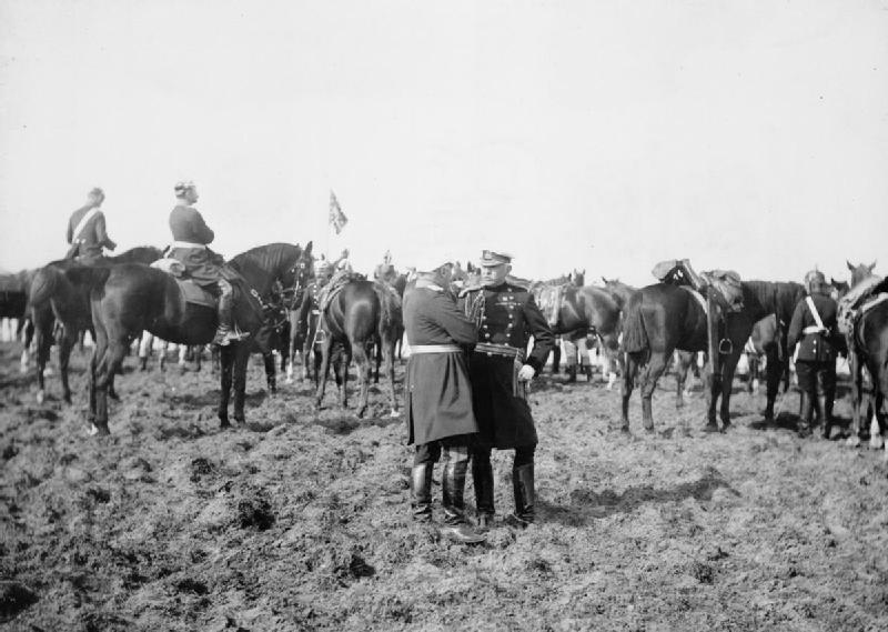 The Imperial German Army 1890 - 1913 General Sir Thomas Kelly-Kenny, Adjutant General to the British Army, in conversation with a German officer during the manoeuvres of 1902.